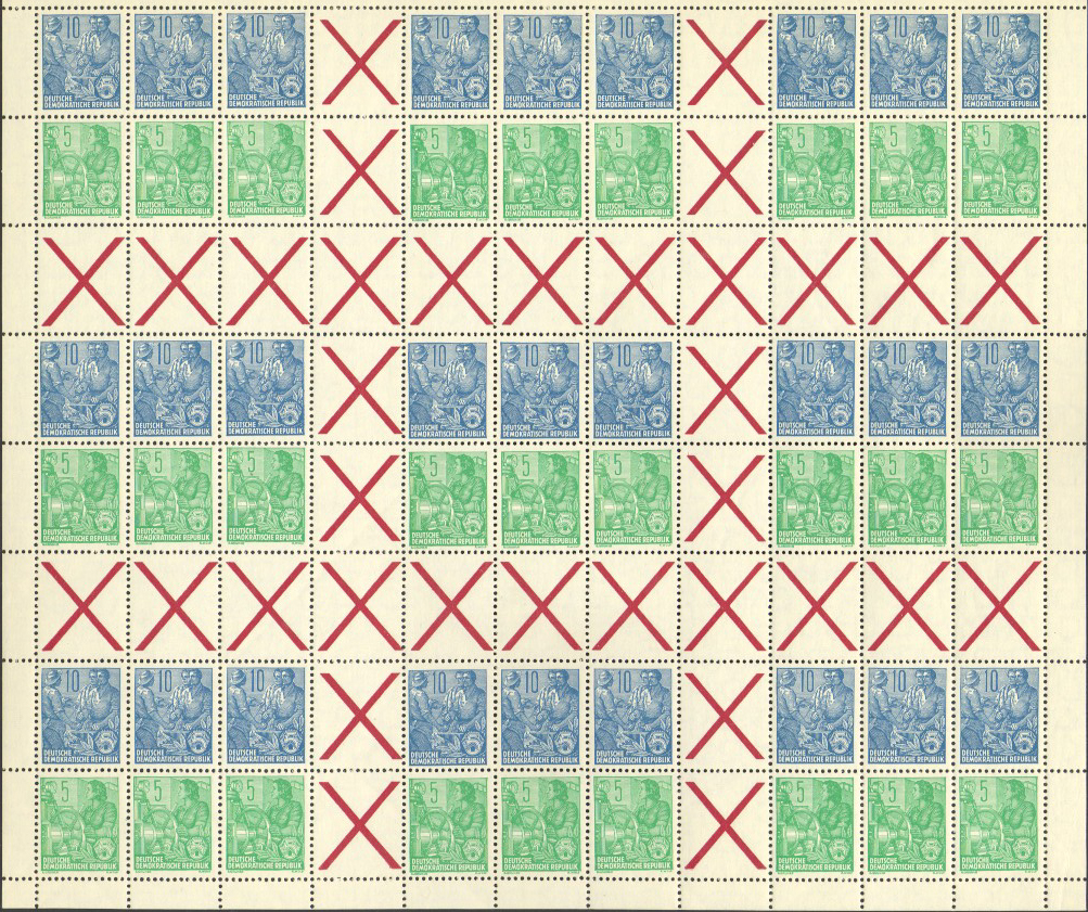 Postage stamp miniature sheet of GDR with gutters, 5 Pf and 10 Pf, 1953